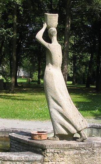 Water basin „Wasserträgerin“ (german for watercarrier) on the Parkfriedhof Neukölln (cemetery) in Berlin-Britz, created in 1956/57 by the sculptress Katharina Szelinski-Singer.